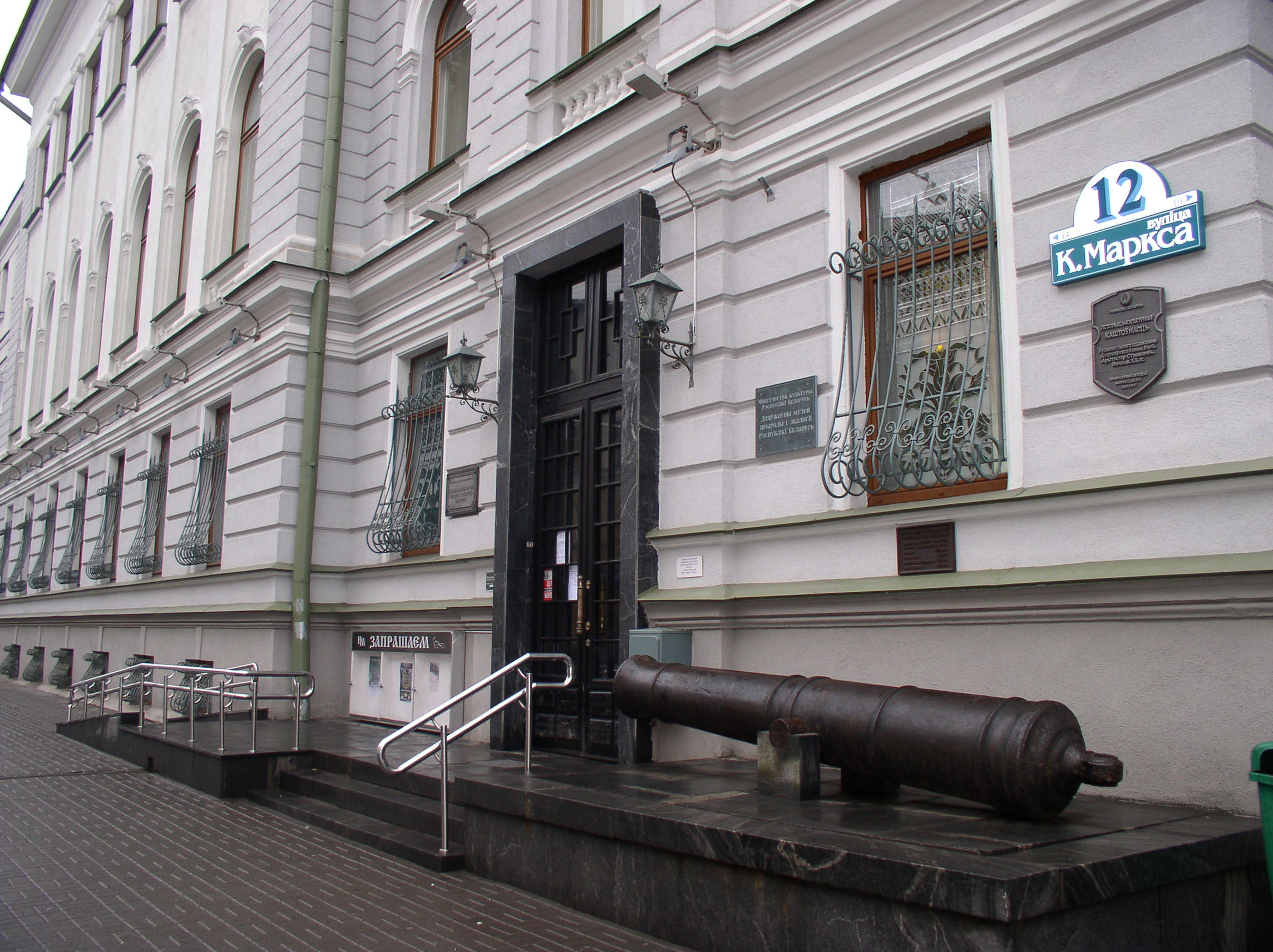 Entrance to National museum of history and culture of Belarus. Karl Marx street, 12. Minsk, Belarus.